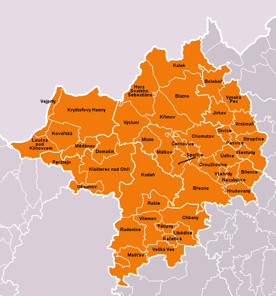 Municipalities of Chomutov District as of January 1, 2010 (44 municipalities in total). White lines of variable thickness show boundaries of municipalities, administrative areas, districts, regions and nations.